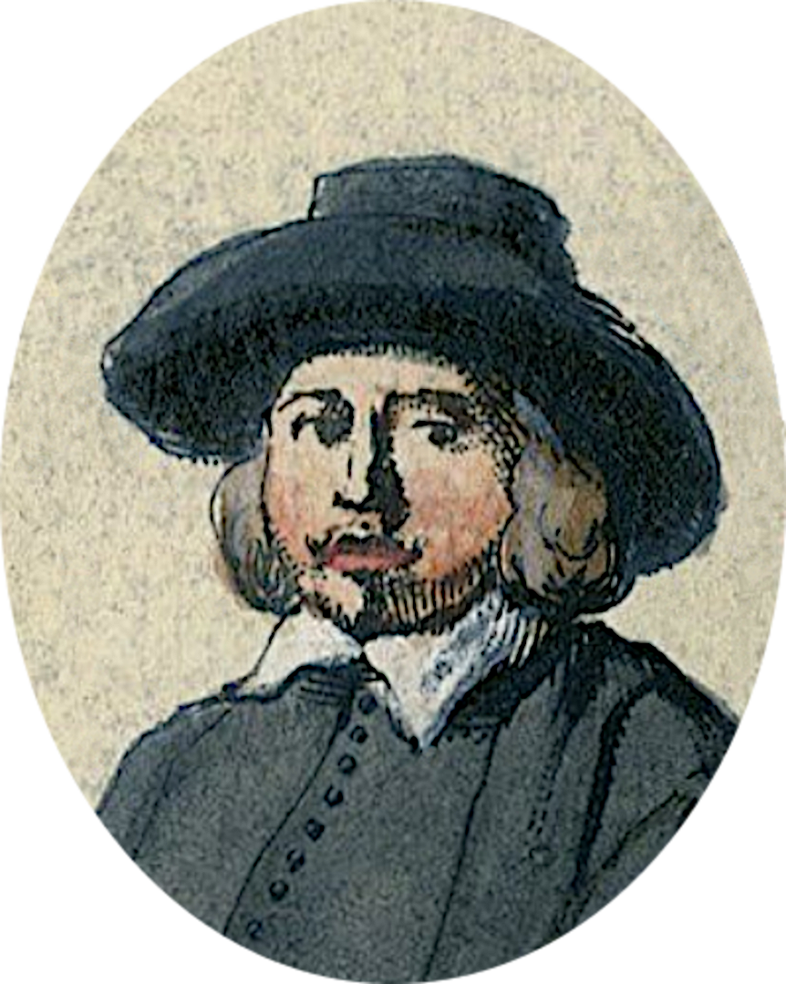 Pieter Post (1608-1669), portrait by Pieter Nolpe. Detail of a larger picture. Identified by Cornelis Hendrik Peters (1847-1932), Chief Government Architect of the Netherlands, in publication: Jaarboek Die Haghe, 1908, pages 125-215. Article title: De 's-Gravenhaagsche bouwmeester Pieter Post